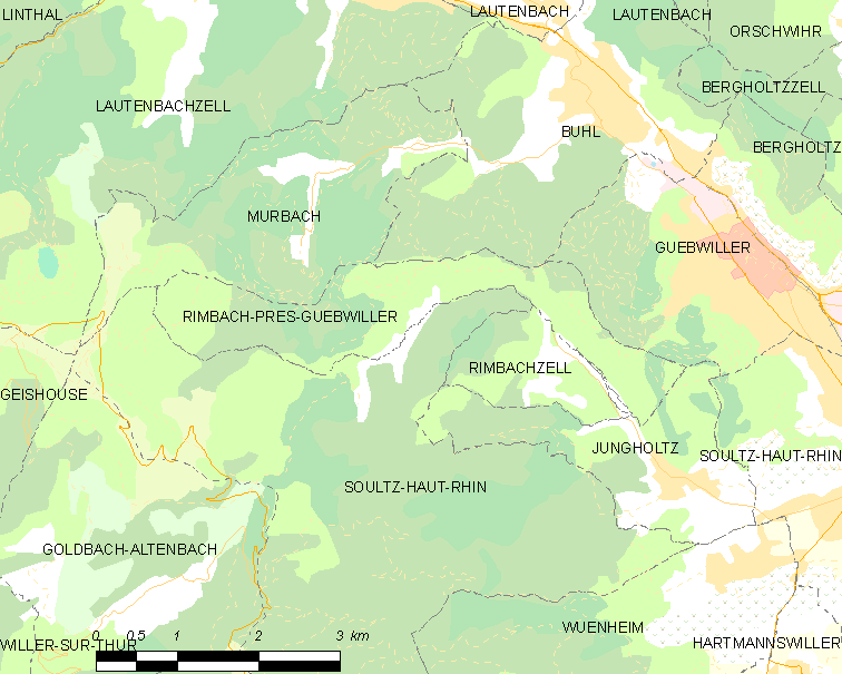 Map of French municipality